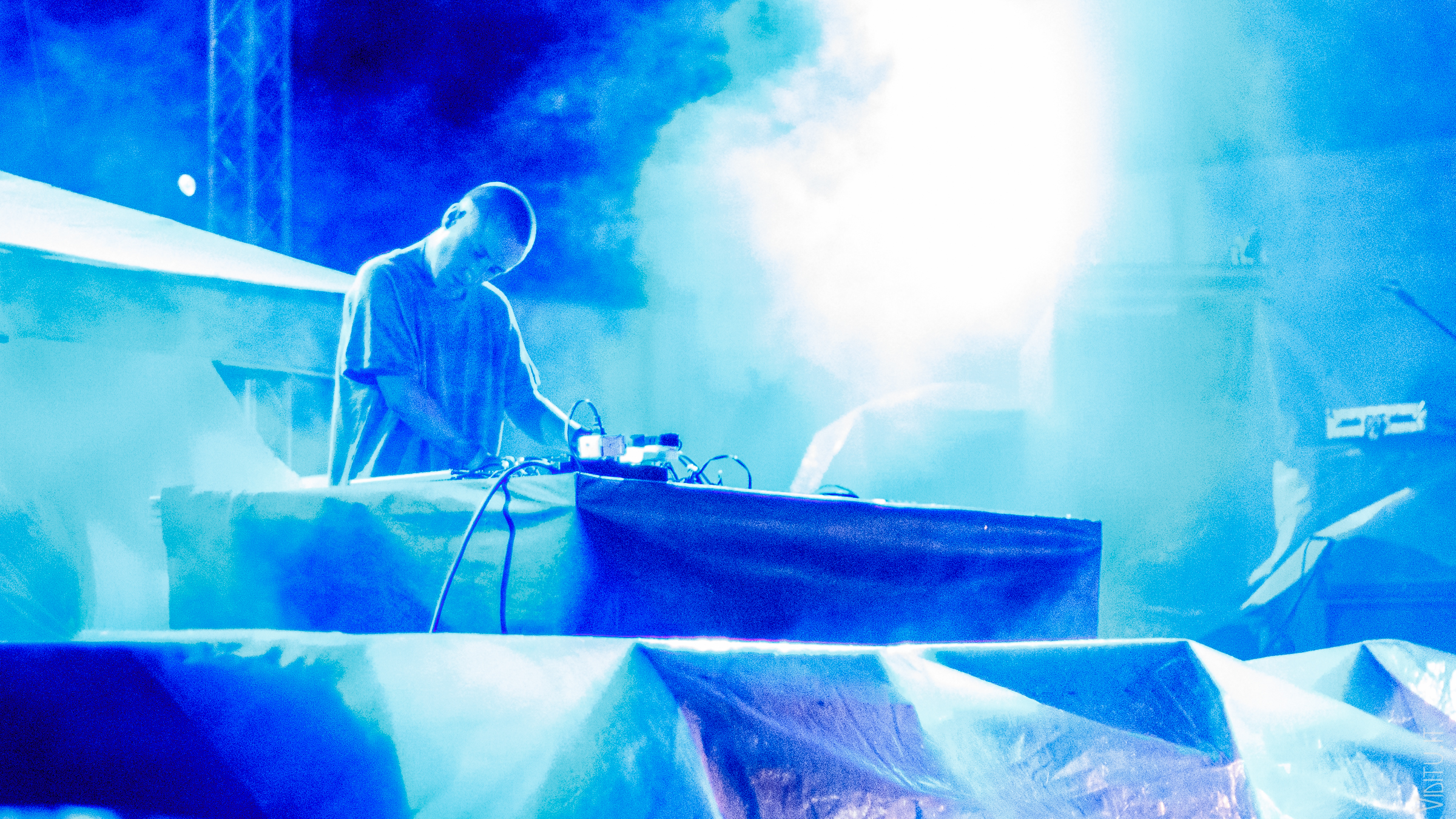 Holy Other performing live at the Ypsigrock festival in Castelbuono, Italy in 2013.